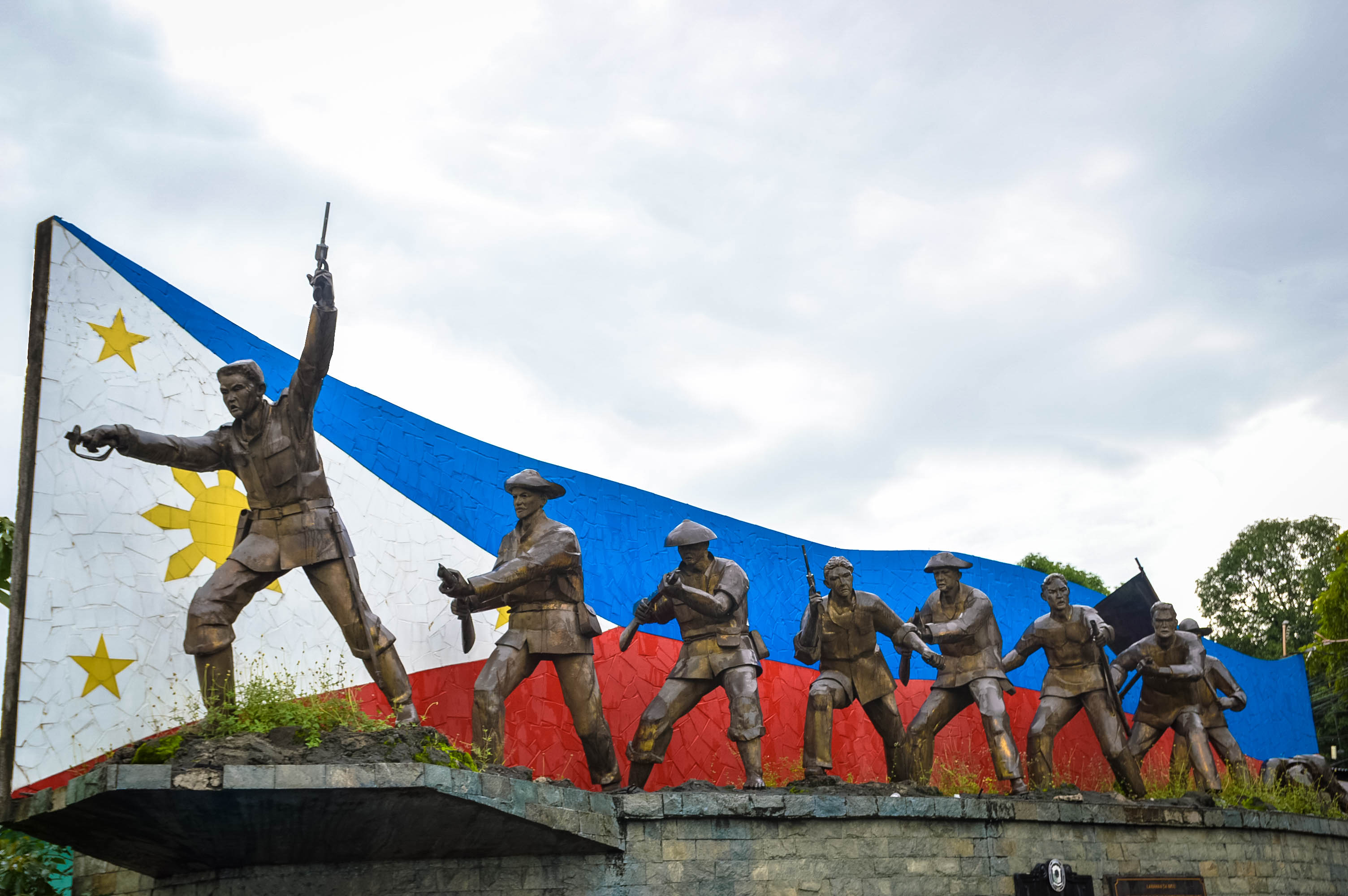 The Battle of Imus (Filipino: Labanan sa Imus